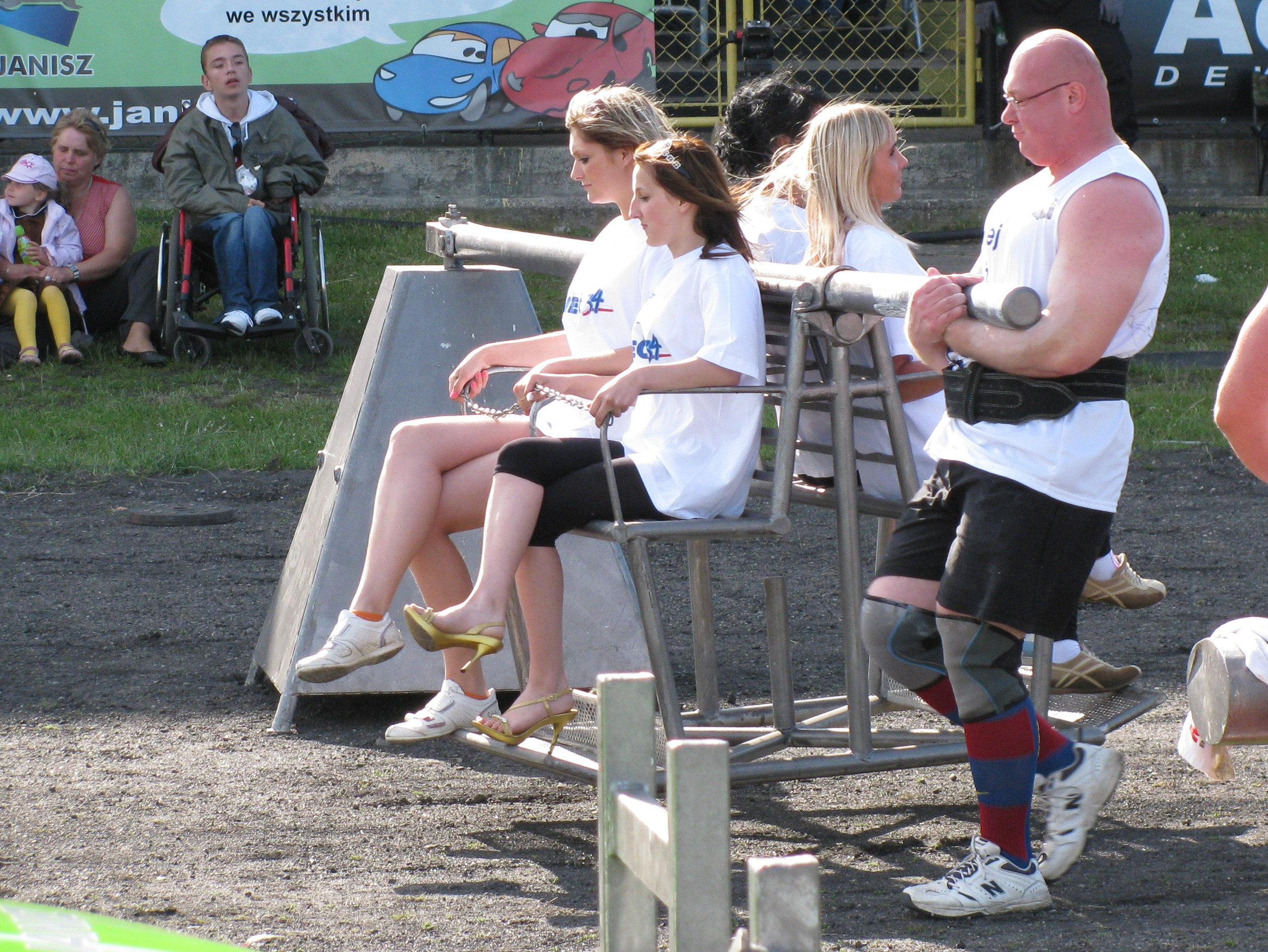 Krzysztof Schabowski - a strength athlete from Poland at Conan's Circle.